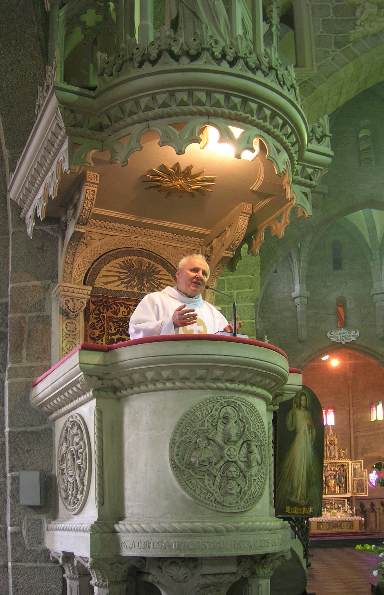 Třebíč-Podklášteří. St Procopius' Basilica